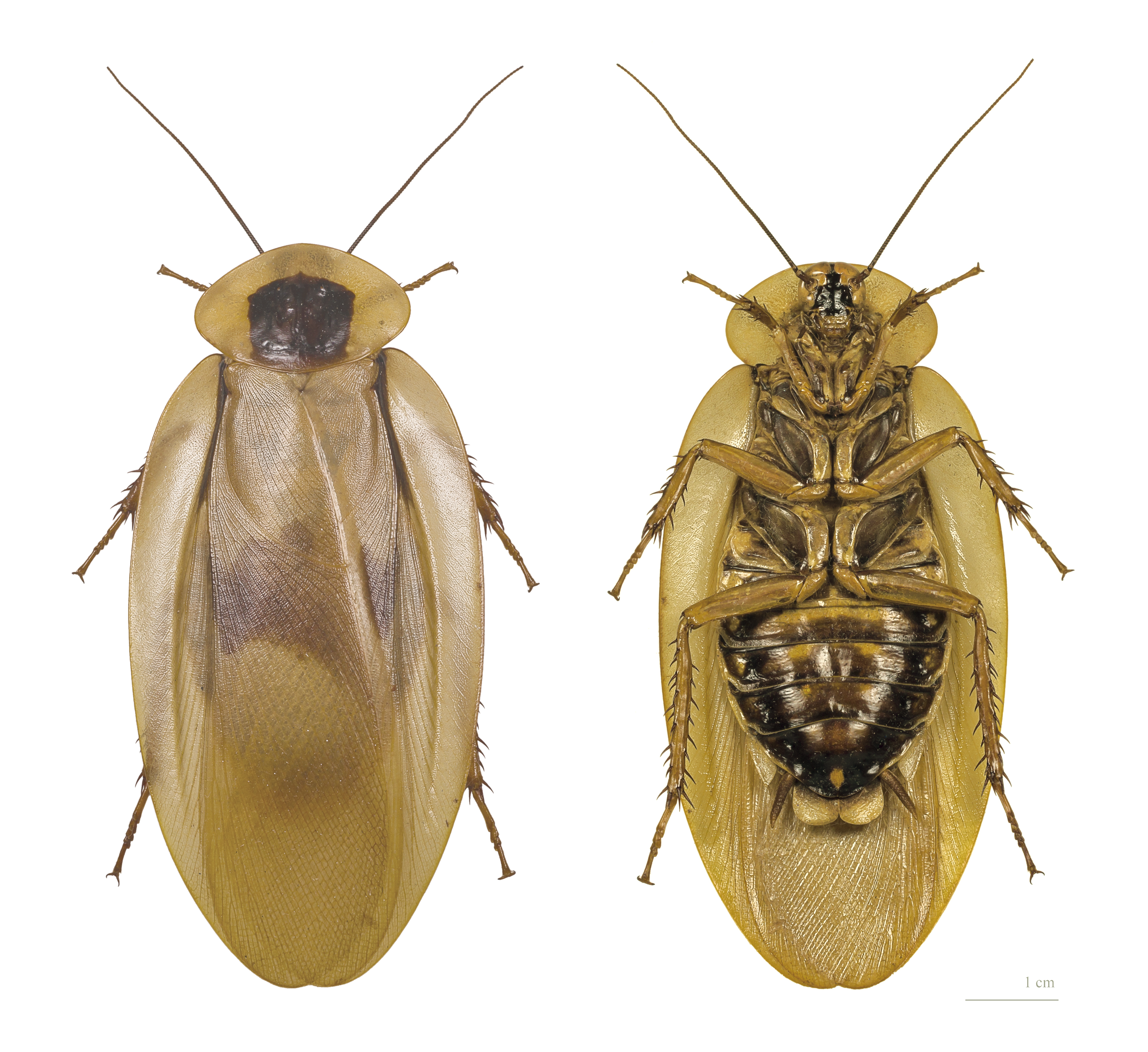 ♀ - Two views of same specimen Locality: Kaw Trail, French Guiana.